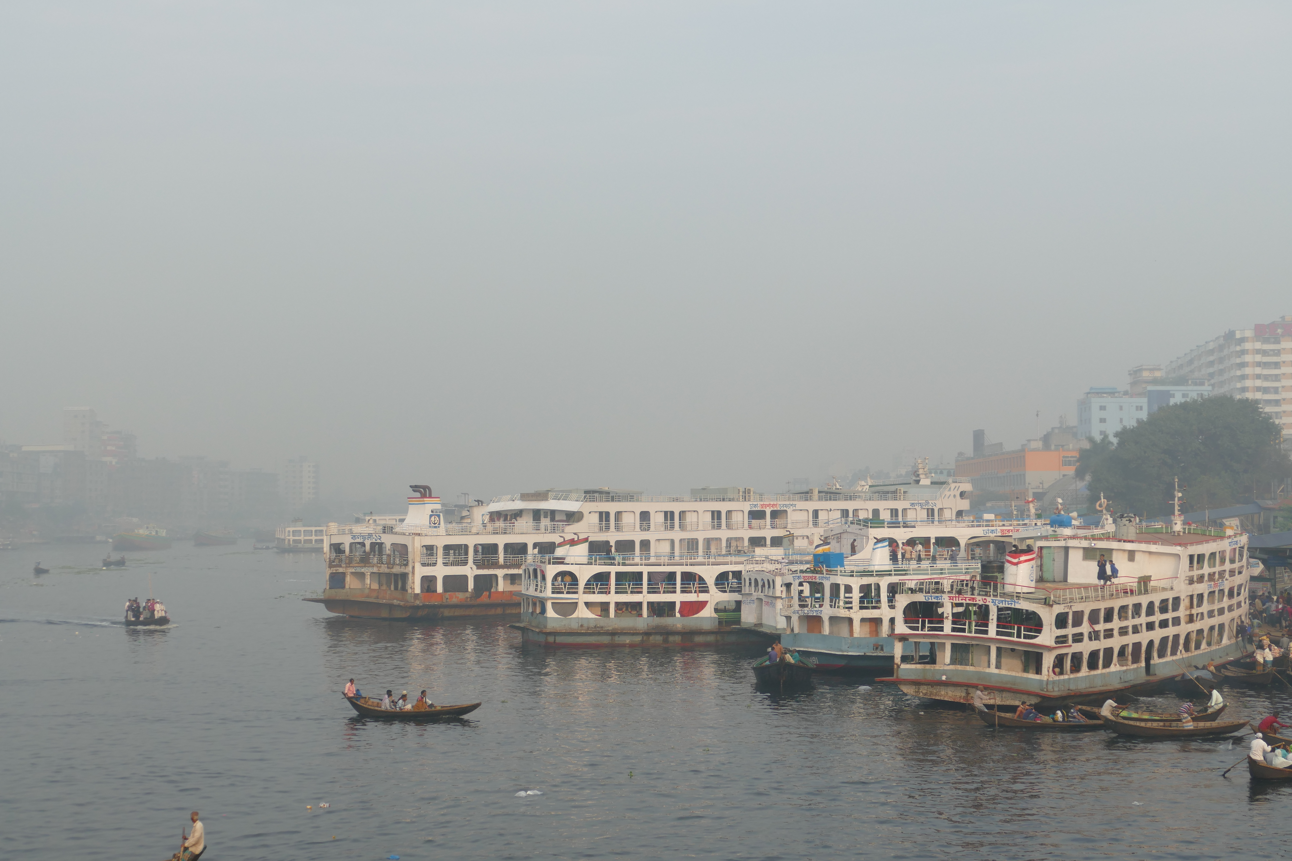 Launches at Sadarghat